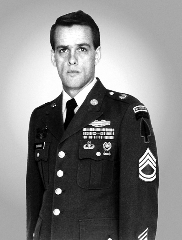 Master Sgt. Gary Ivan Gordon (August 30, 1960–October 3, 1993), posthumous recipient of the Medal of Honor.